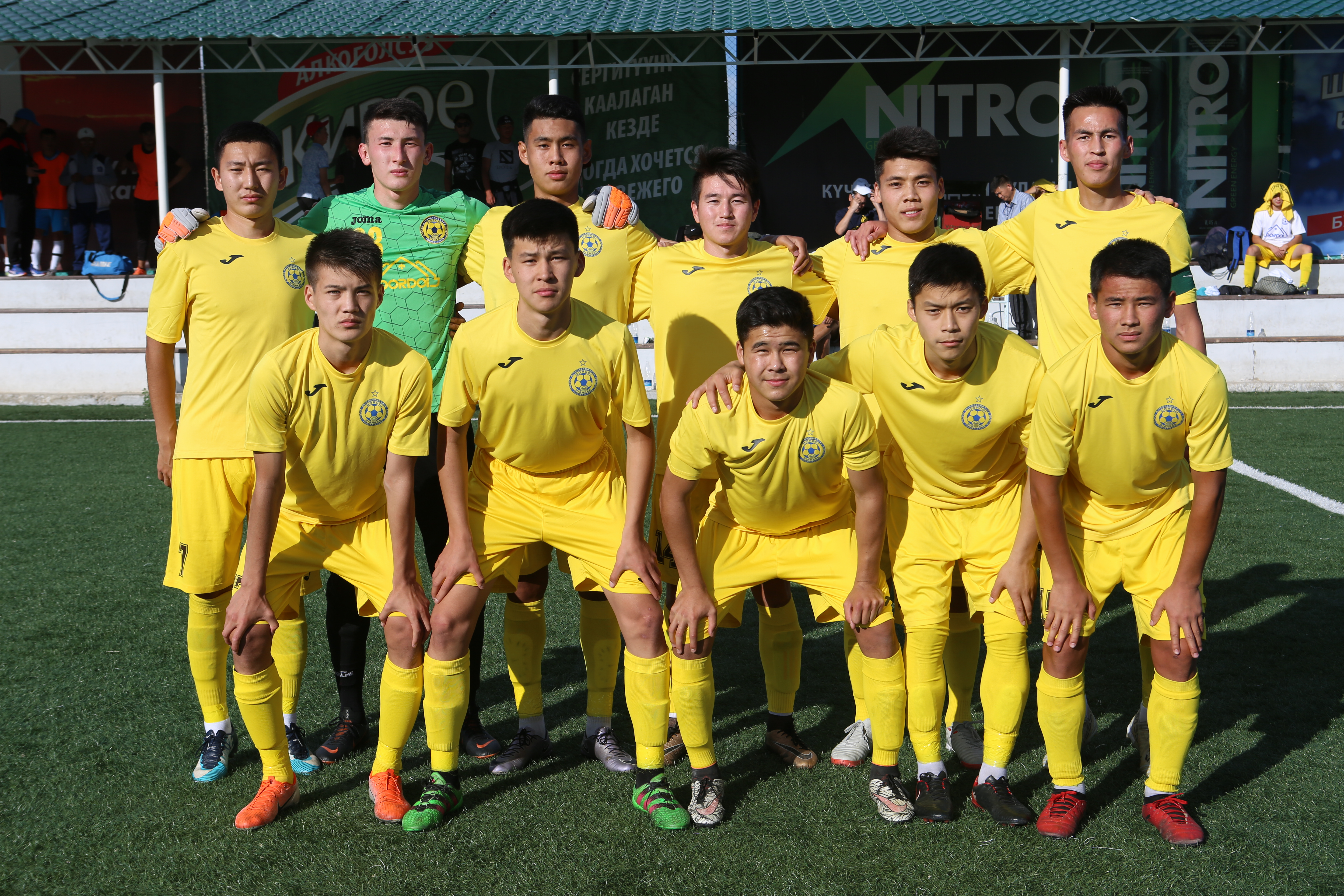 "Dordoi" B team - June 5, 2019